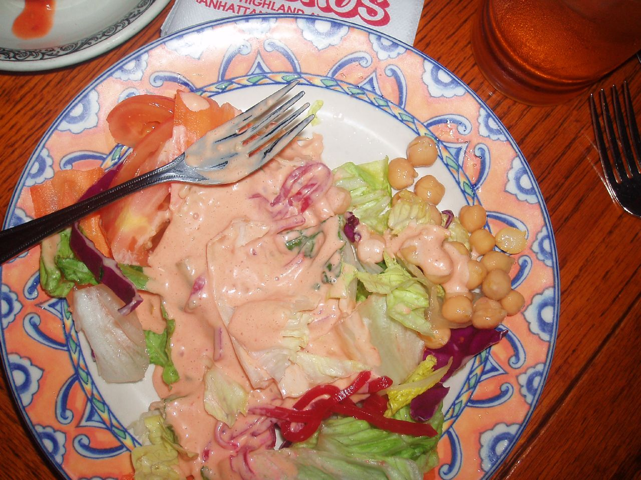 Thousand Island Dressing on a plate of salad. Taken by Flickr user JND90745 at Pancho's restaurant, Manhattan Beach, California, USA.